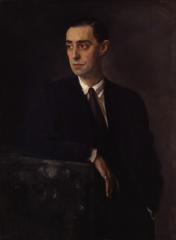 Birley, Oswald Hornby Joseph; Glyn Warren Philpot; National Portrait Gallery, London